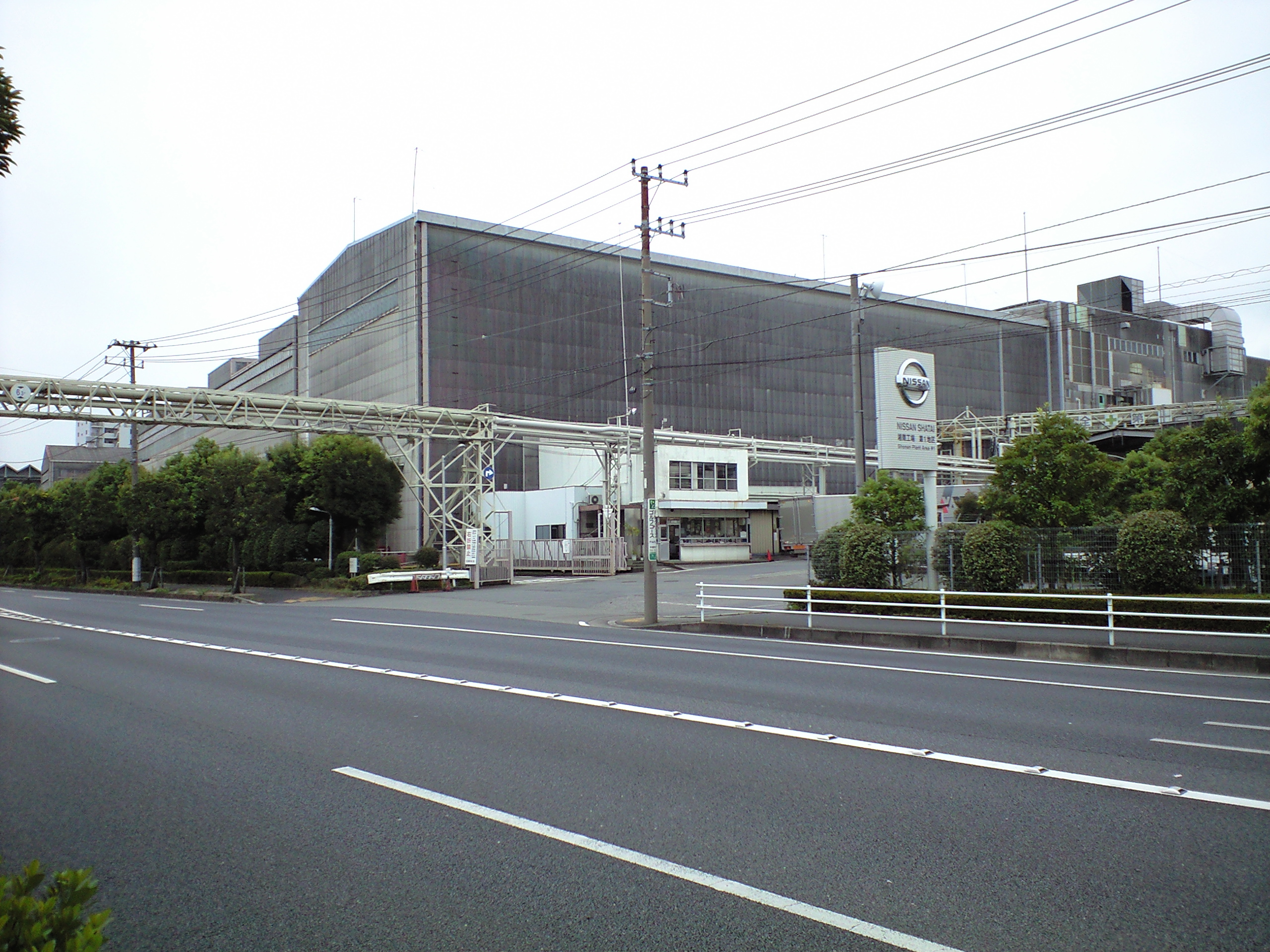 Nissan Shatai's Shonan Plant Area 1 (former headquarters location)